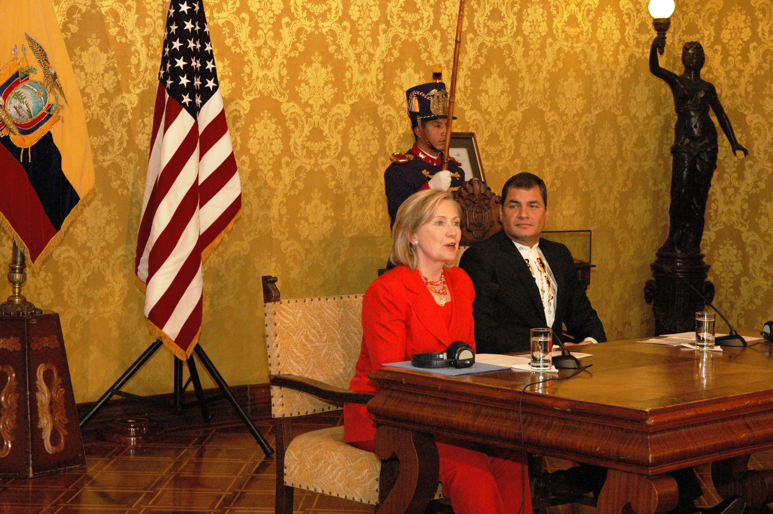 U.S. Secretary of State Hillary Rodham Clinton and Ecuadorian President Rafael Correa participate in joint press avail in Quito, Ecuador, on June 8, 2010. [State Department photo/ Public Domain]